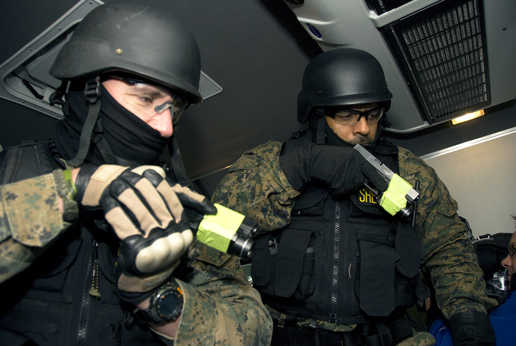 Marion County SWAT Team members check passengers on the bus.